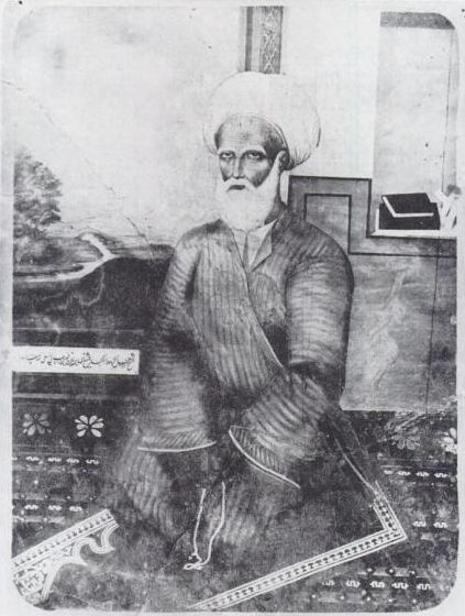 Published in: Mehrabkhani, Ruhu'llah (1987) Mulla Husayn: Disciple at Dawn, Kalimát Press Bahá'í World Centre